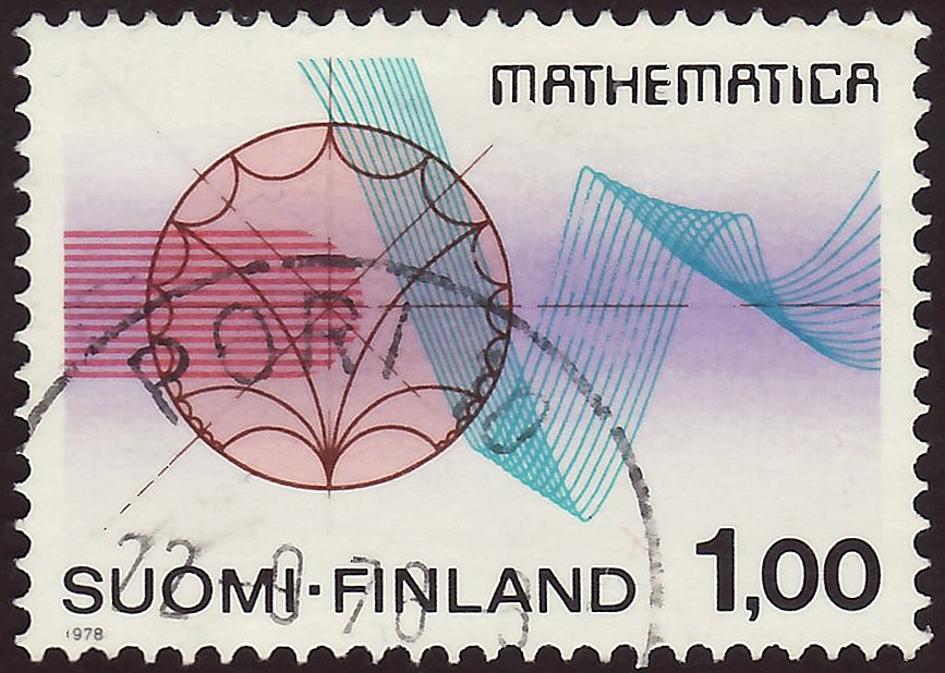 Stamp of Finland; 1978; commemorative stamp to the ICM-congress "Mathematica '78" (ICM = International Congress of Mathematicians); drawing of a figure of the Functions Theory as well as a group of rhytmic function lines: stamp postmarked in Pori, 1978 Stamp: Michel: No. 829; Yvert et Tellier: No. 795; AFA: No. 836 Color: multicolored on luminescent paper Watermark: none Nominal value: 1.00 (Markka) Postage validity: from 15 August 1978 until 31 December 2011 Stamp picture size (printed area without below years line): 31.0 x 21.0 mm Postmark: Pori 10 (Region Satakunta, South Western Finland), 22 September 1978